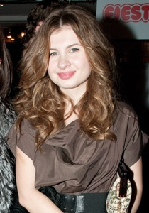 Russian actress Anna Tsukanova. At the «Brest Fortress» premiere in Moscow, November 3, 2010.